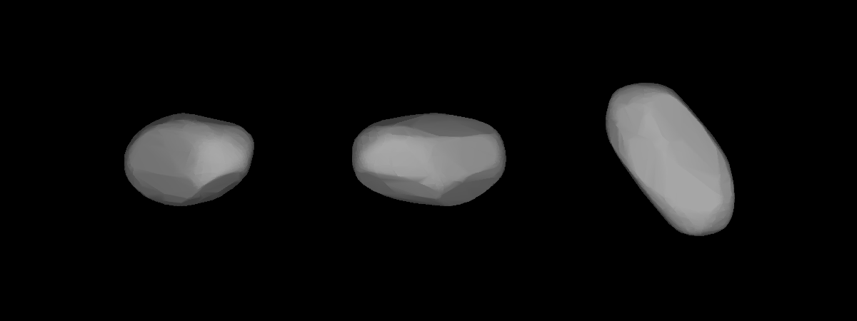 A three-dimensional model of 63 Ausonia that was computed using light curve inversion techniques.